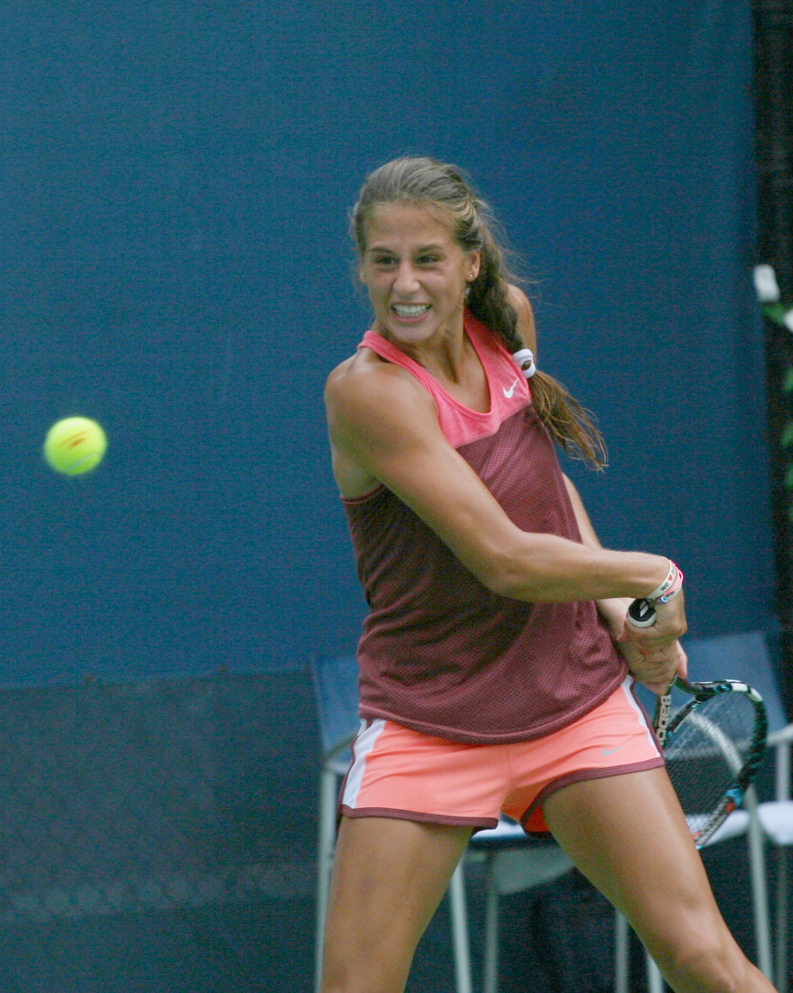 Ivana Jorović at the 2013 US Open